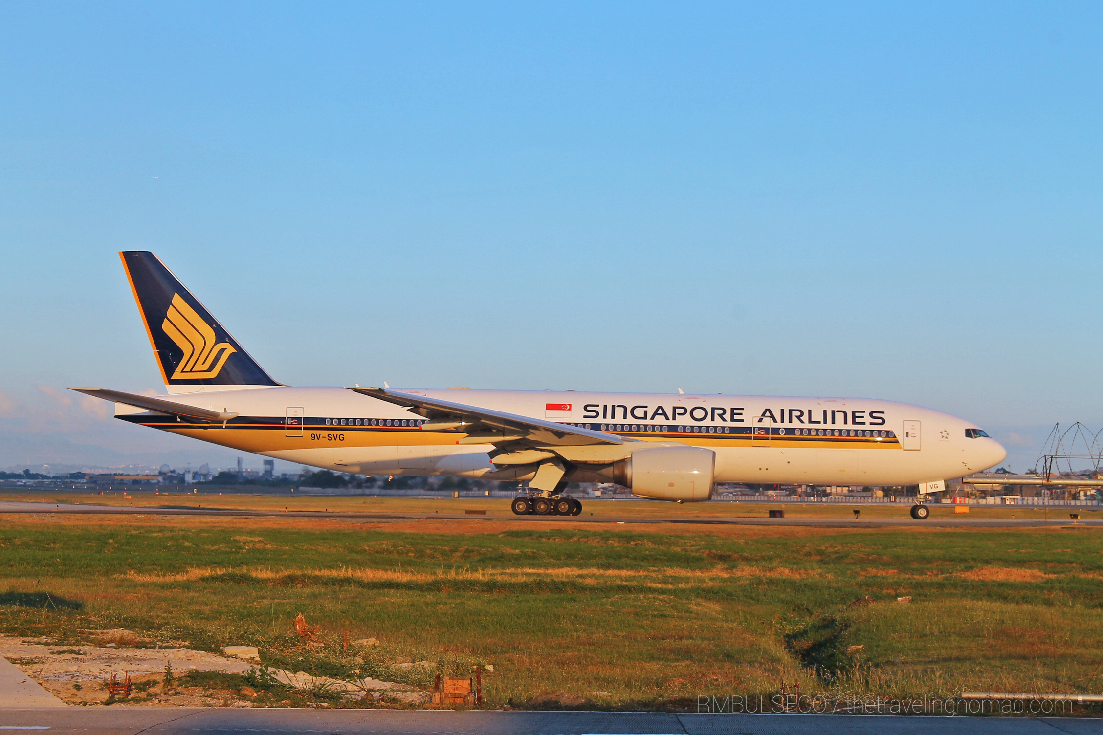 The afternoon sun and SIA.